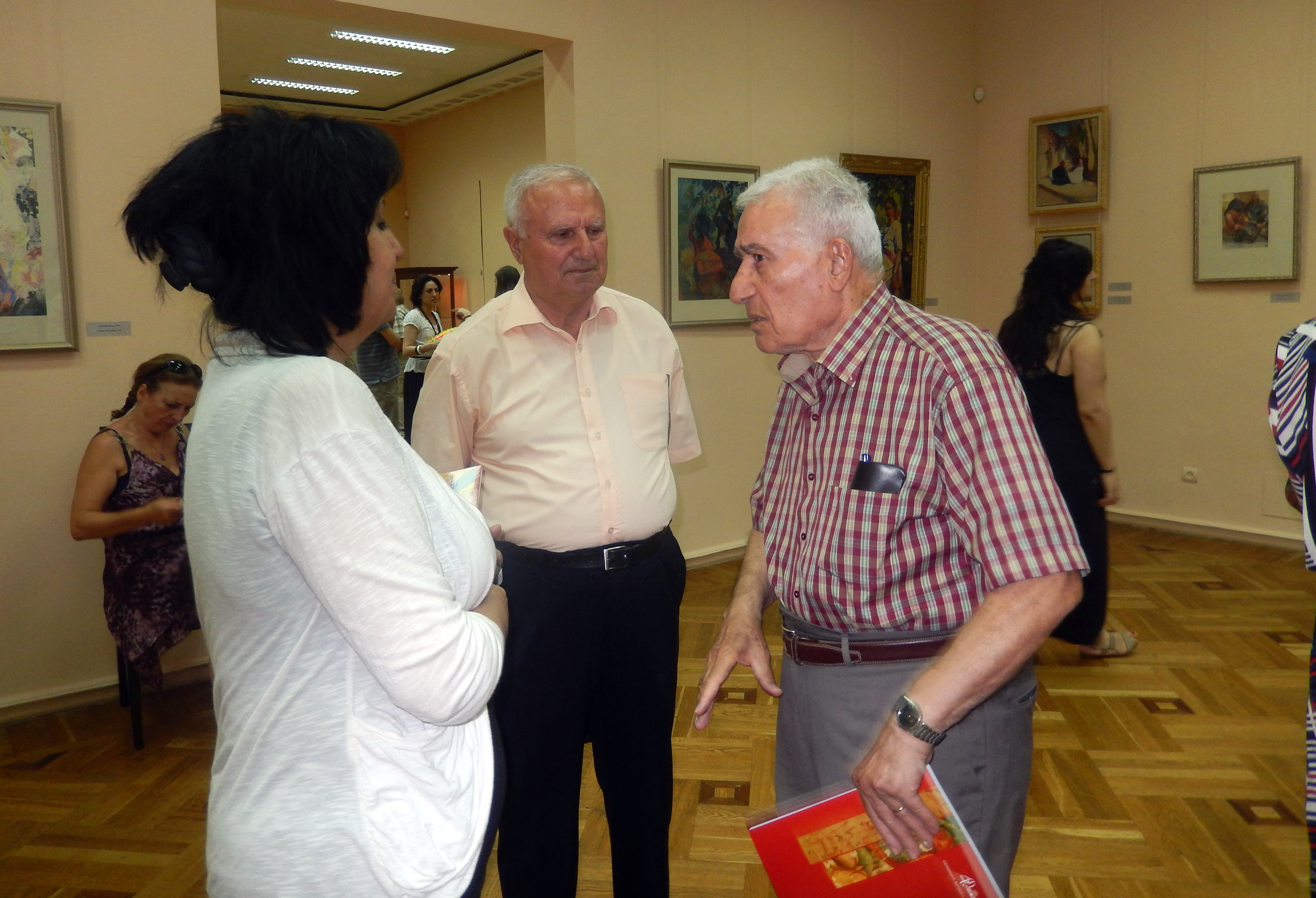 Թորոս Թորանյանը «Սարգիս Խաչատուրյան 130-ամյակ» ցուցահանդեսի ժամանակ, ՀԱՊ